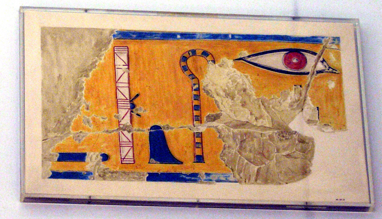 Facsimile, Amenemhat Surer (TT 48), inscription